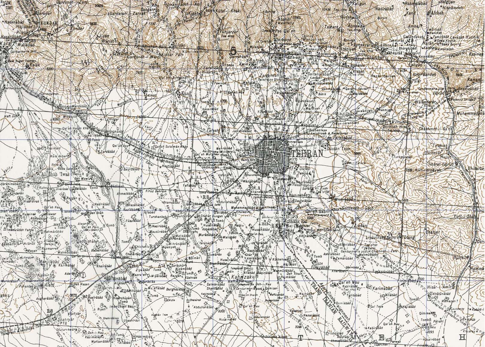 Map of Tehran. Portion of sheet I-39 D Iran. Original scale 1:250,000 Compiled and published originally under the direction of the Surveyor-General of India 1910 and Revised to 1940. Published by the U.S. Army Map Service November, 1947.